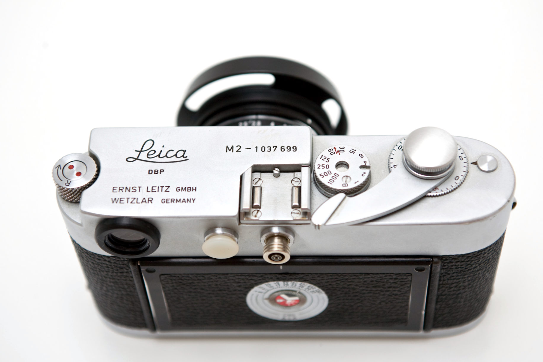 Leica M2 camera, serial number 1037699. Shown in the image is an aftermarket Abrahamsson soft release and a plastic eyepeice cover to protect eyeglasses from being scratched by the M2's metal eyepeice. Also shown is a PC port adapter on the right-risde flash bulb port on the back of the camera.